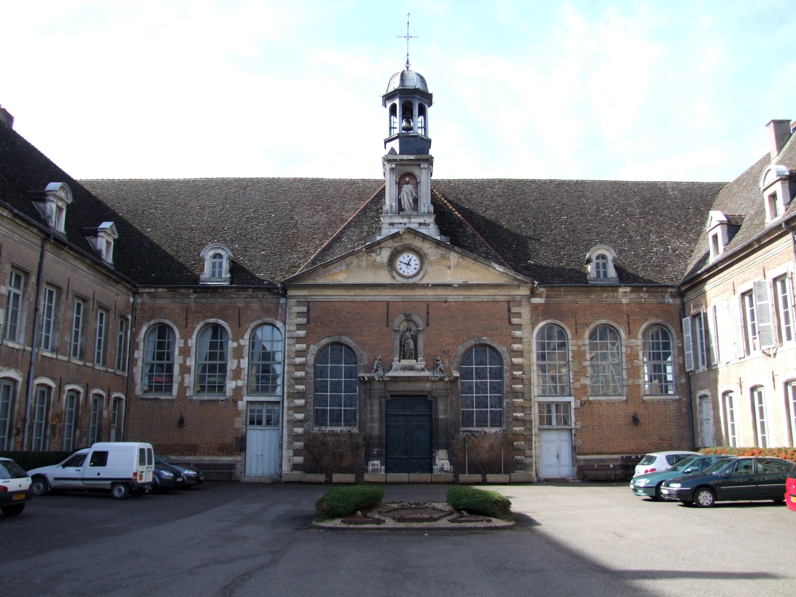 Seurre, Burgundy, FRANCE